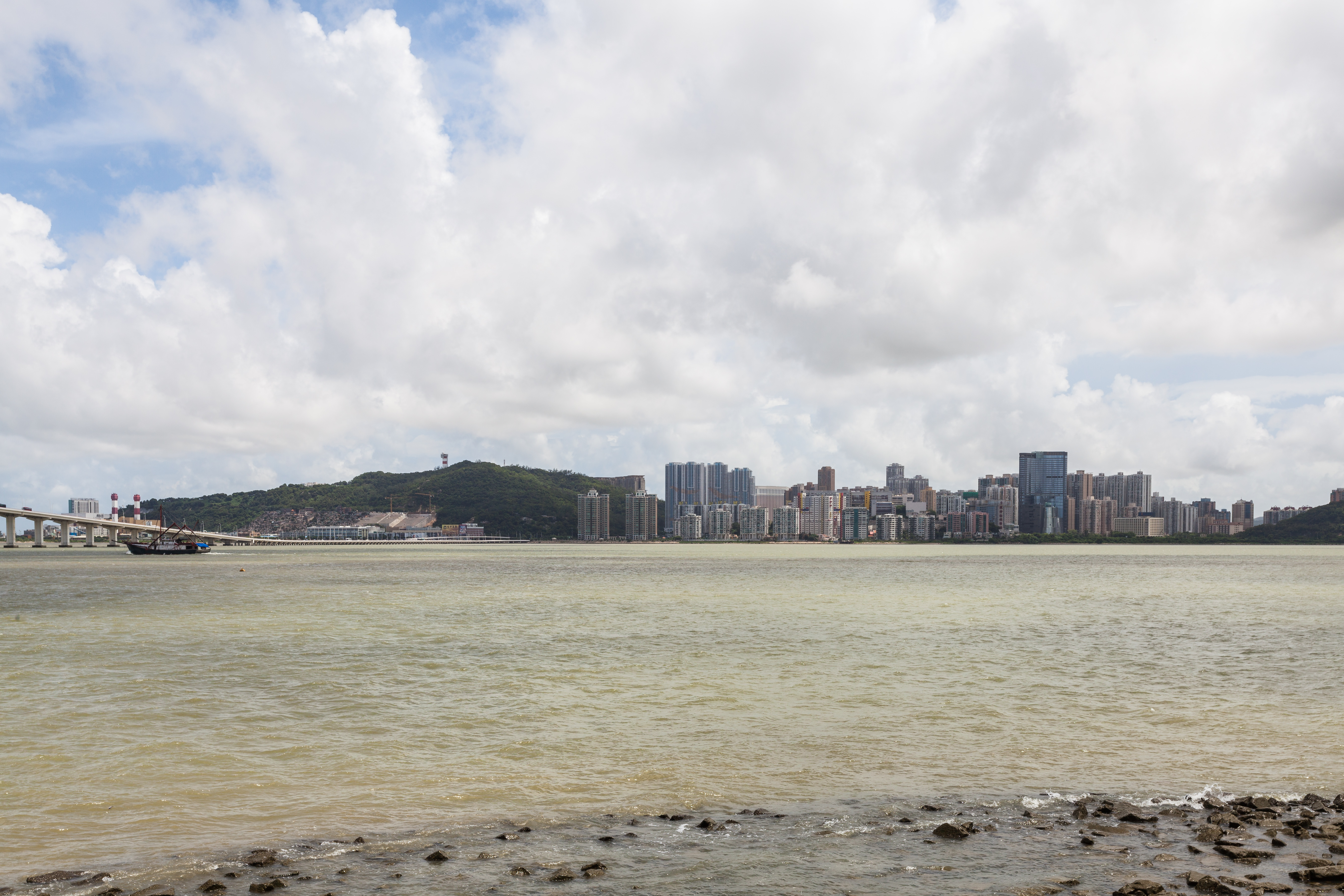 View of Taipa from Science Center, Macau